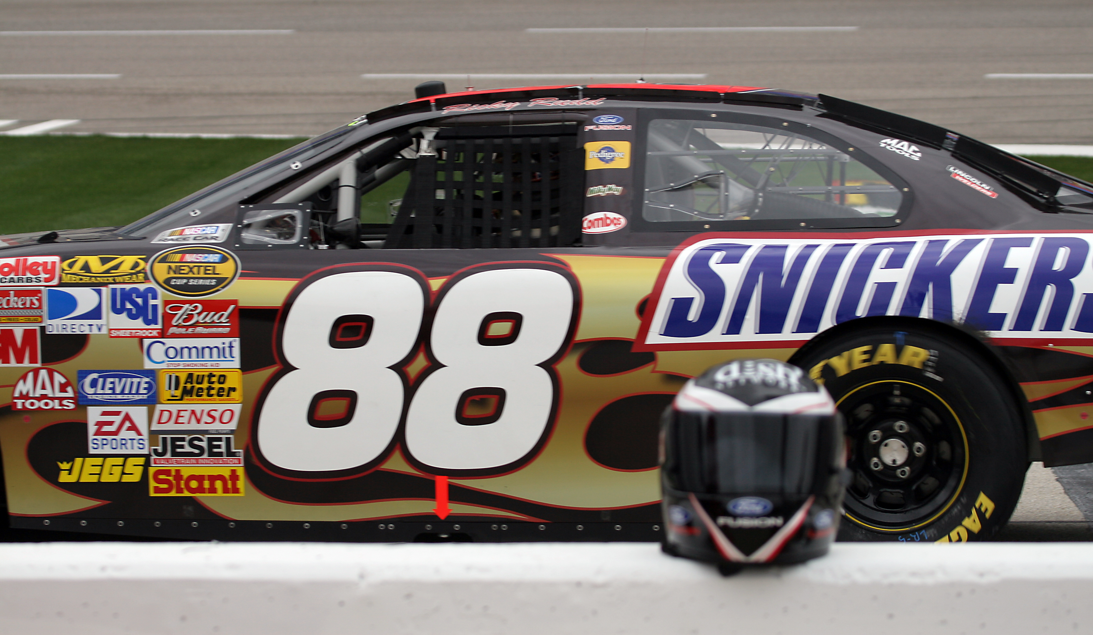 NASCAR driver Ricky Rudd's #88 car at Texas Motor Speedway88